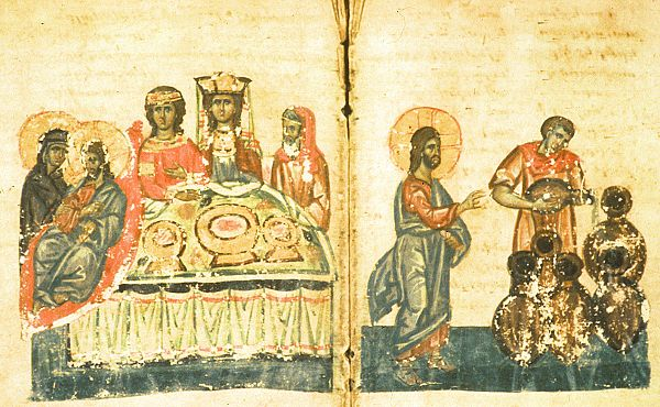 Gospel, Surkhat, Crimea, 1332, artist Grigor Suk'iasants', Marriage Feast of Cana (Erevan, Matenadaran, MS 7664, )